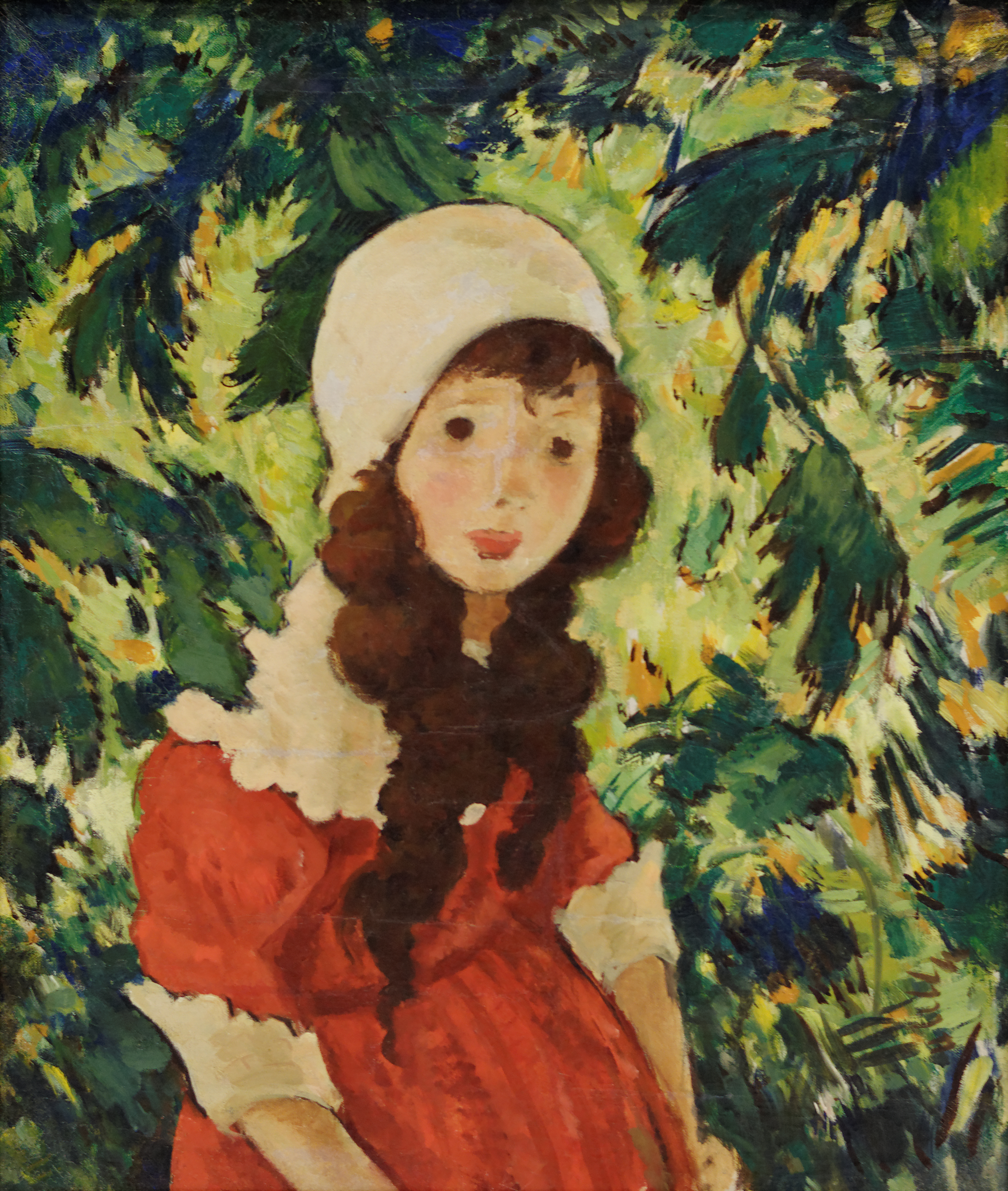 Forester's Daughter.